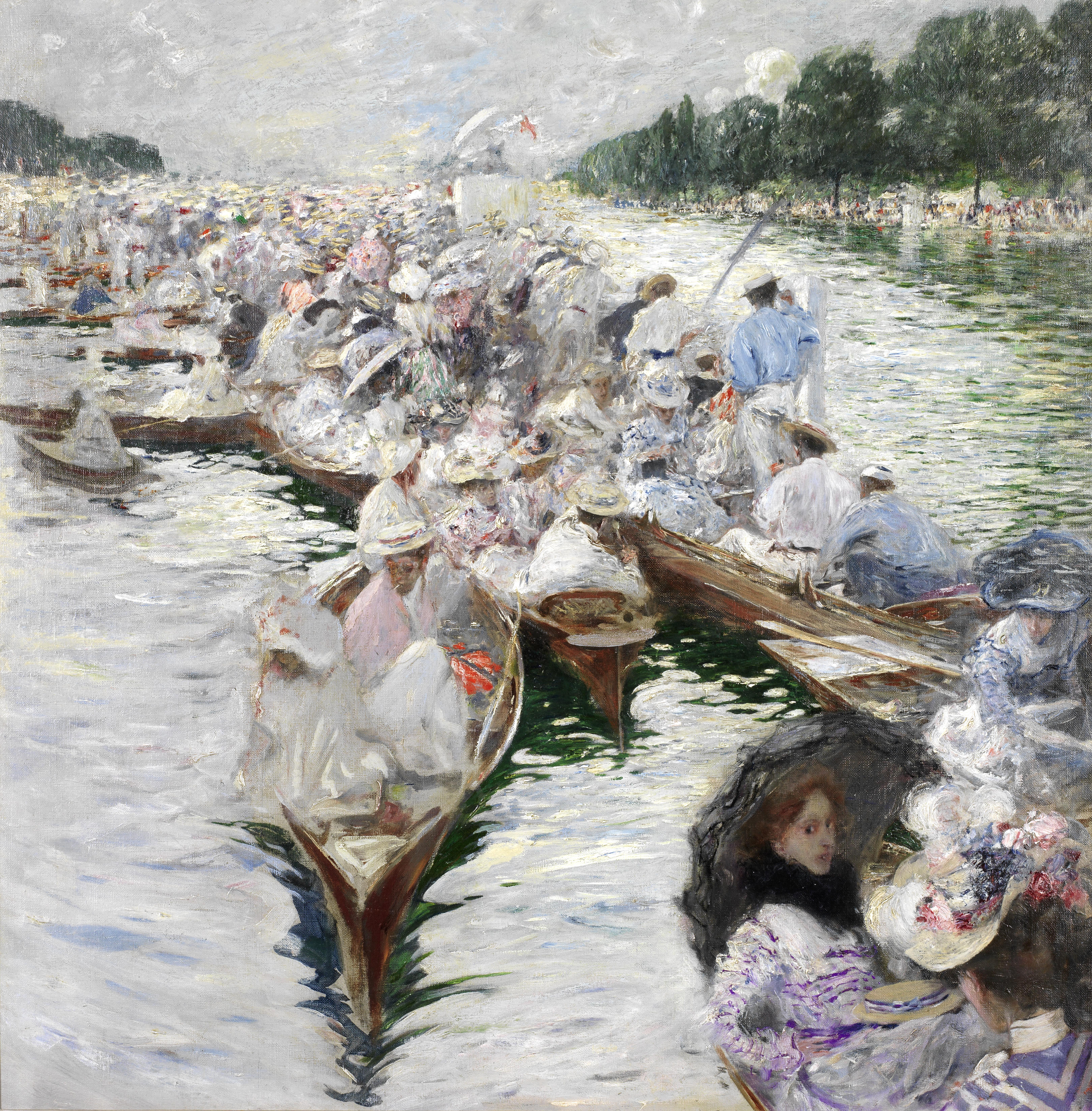 Henley Regatta. Signed, inscribed and dated 'Fried Stahl/Henley 99' (lower centre); oil on canvas; 74 x 72 cm